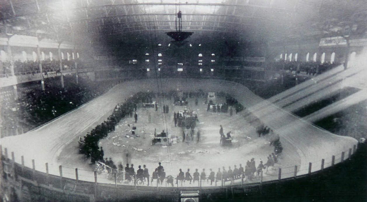 Madison Square Garden 1907